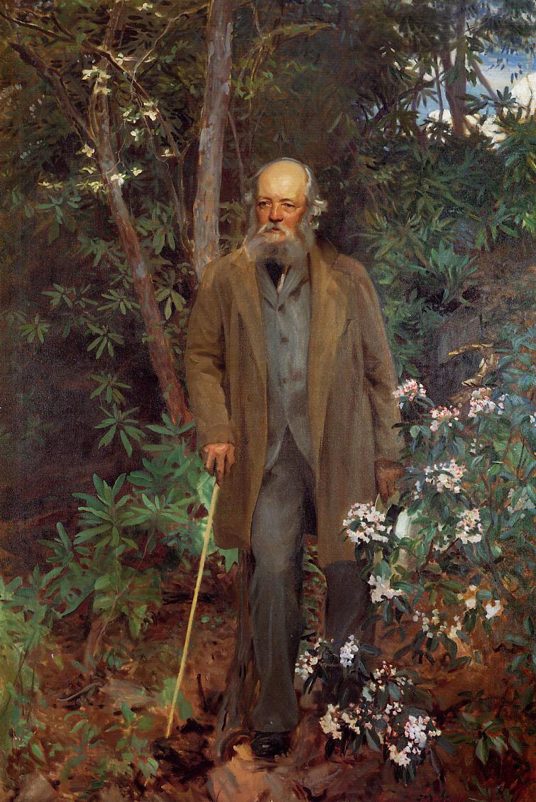 Portrait of landscape designer and architect Frederick Law Olmsted.